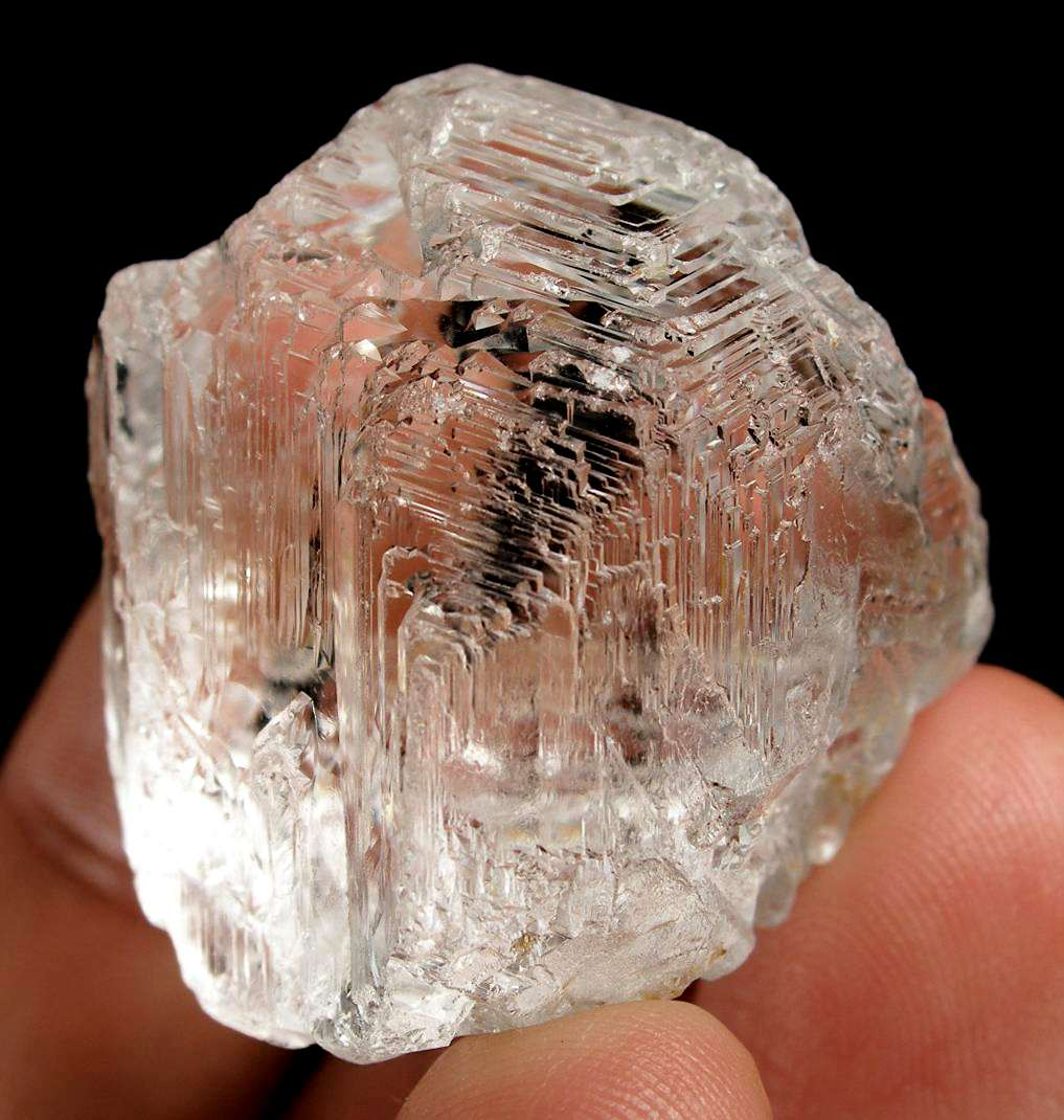 Phenakite Locality: Jos Plateau, Plateau State, Nigeria (Locality at ) Size: miniature, 3.1 x 2.9 x 2.6 cm Phenakite In person this 32-gram floater is a total gem. It is robust, gorgeous and exceptionally gemmy. It looks for all-the-world like a garnet at first glance and like no phenakite I have seen before, with typical surface complexity. But it is, instead, one of these new phenakites - a superb small miniature sized crystal. It is a floater, complete-all-around. The crystal itself is absolutely colorless, a pure colorlessness that adds to the gemminess of the specimen in person (and makes it extremely hard to photograph because light refracts off all the hundreds of facets and faces here, bouncing back and forth through the crystal and making the camera unable to capture its true clarity).